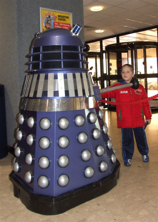 Yeeess! A-ll hu-mans are en-em-ies of the Daleks! "One for Modelworld please"